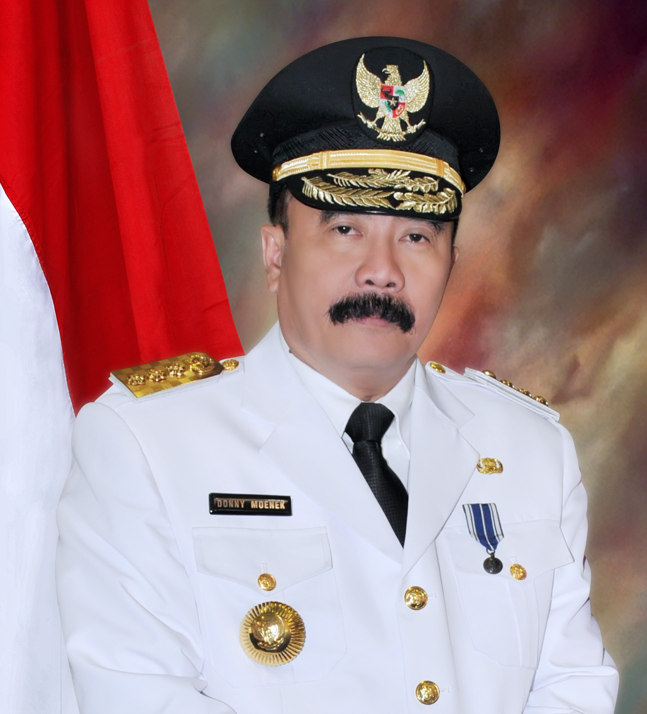 Reydonnyzar Moenek when he became acting Governor West Sumatra started 15 Agustus 2015.